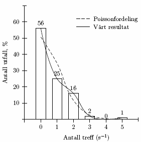 PSTricks image - Histogram with Poisson distribution